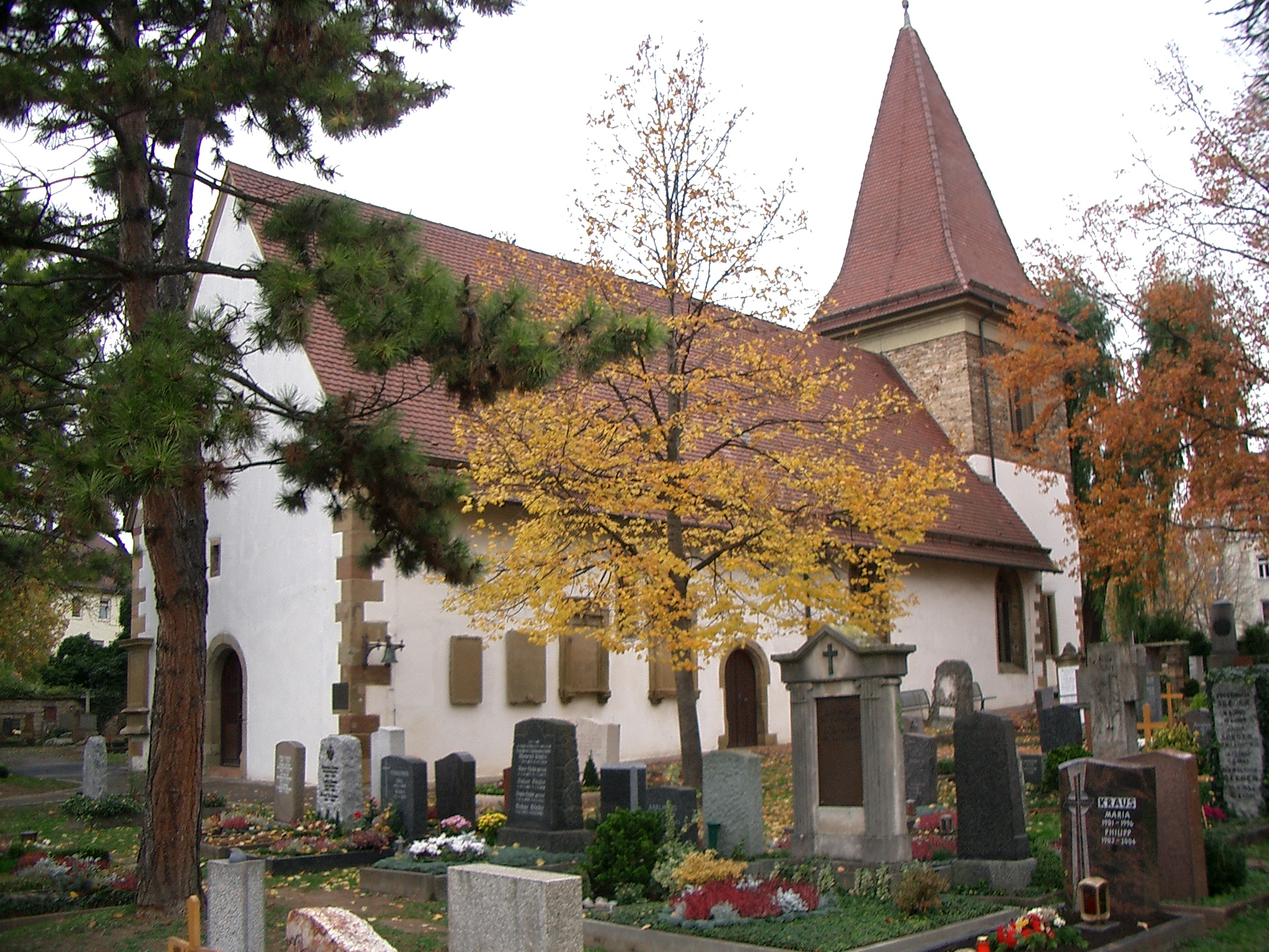 Uffkirche in Stuttgart Bad Cannstatt self made photo by user:Eaaumi at 17 NOV 2006 in Stuttgart-Bad Cannstatt